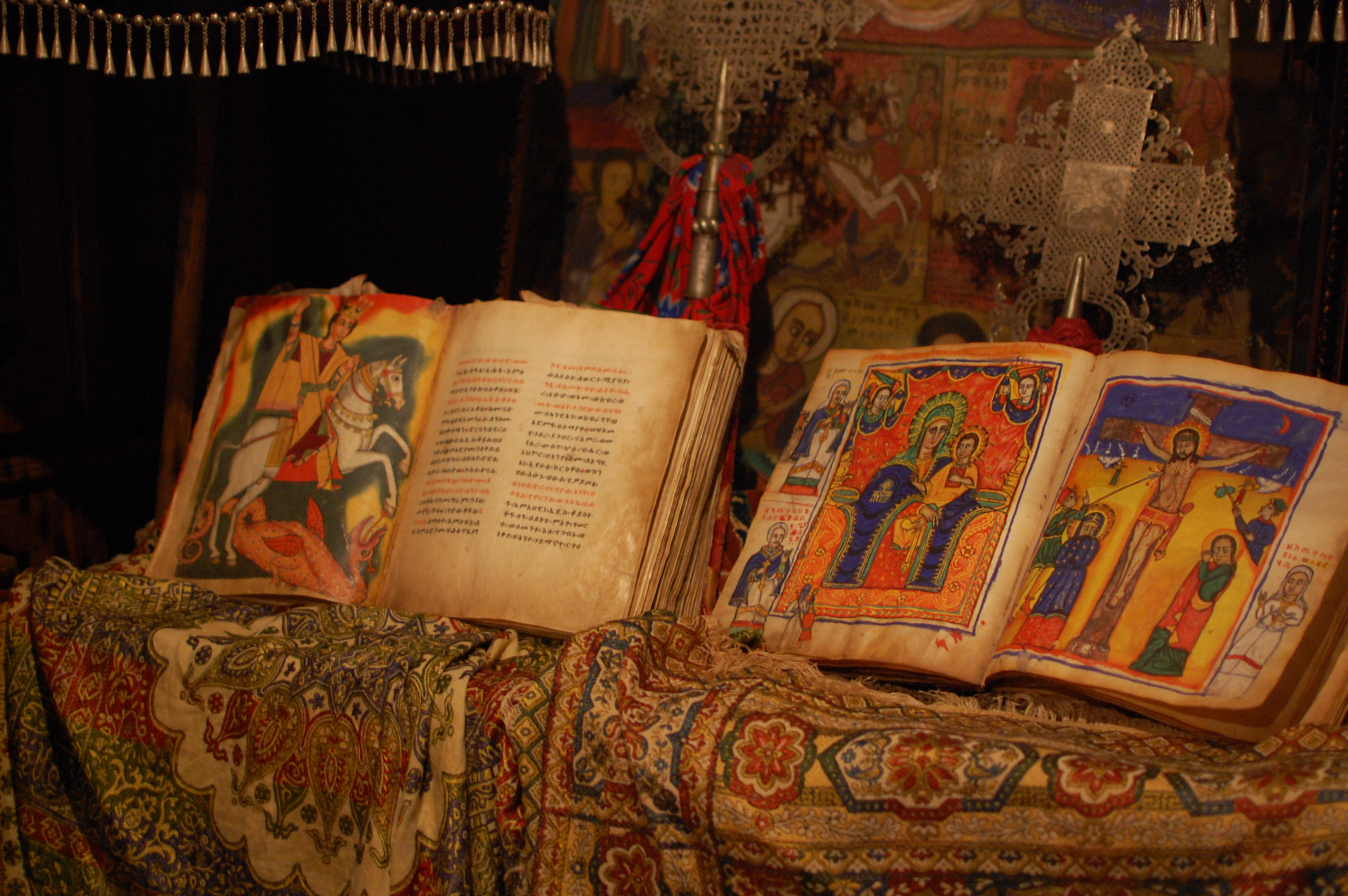 Books in the monastery museum of the Orthodox Church of Ura Kidane Mehret, Zege Peninsula, Ethiopia, 16th century.